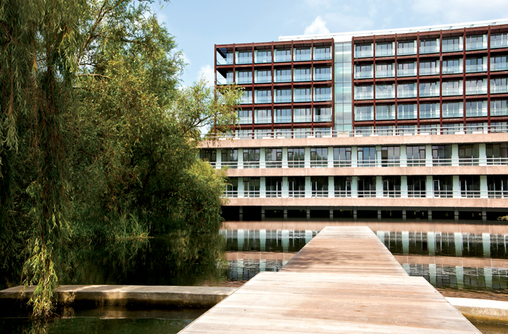 Lakeshore in the day